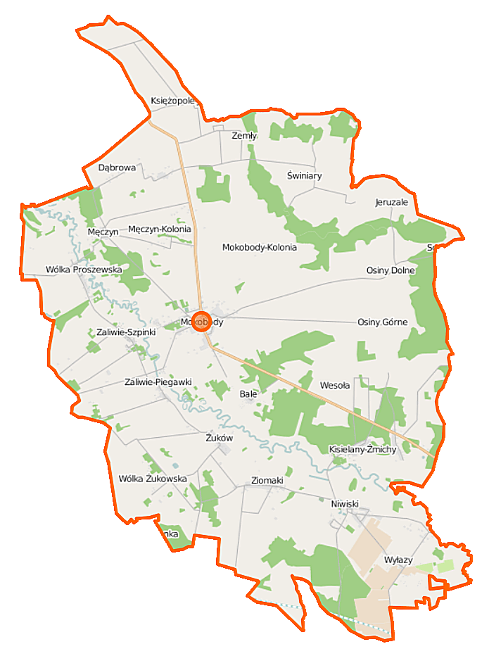 Map of Gmina Mokobody, Poland This map of Mokobody (gmina) was created from OpenStreetMap project data, collected by the community. This map may be incomplete, and may contain errors. Don't rely solely on it for navigation. Border coordinates52.342322.0334←↕→22.224552.1855